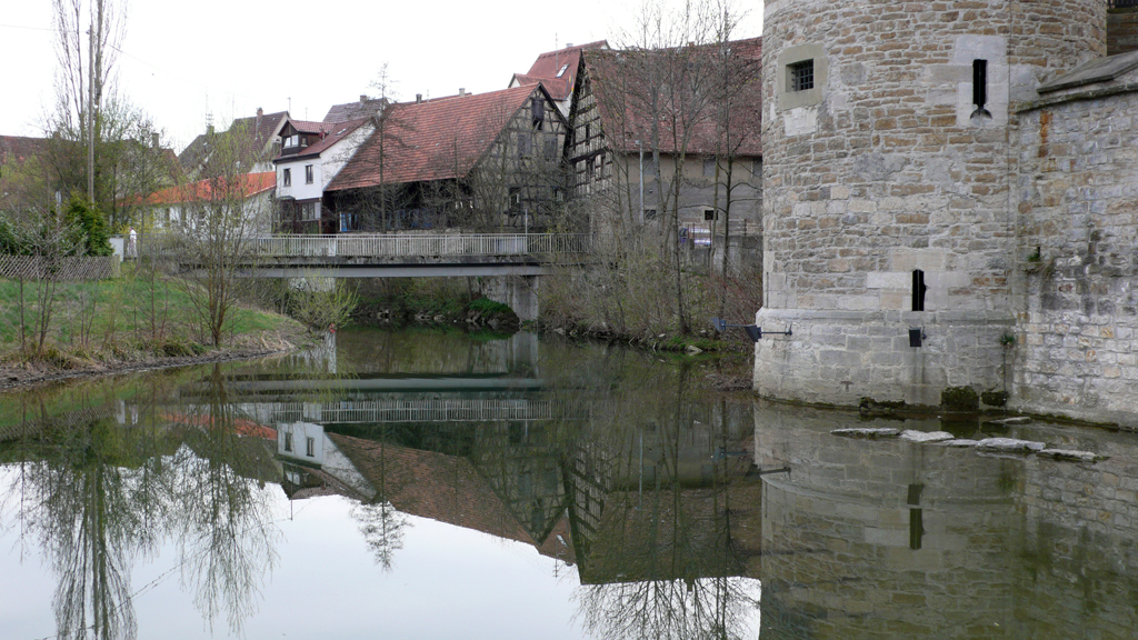 Eyach river in Balingen (Germany)